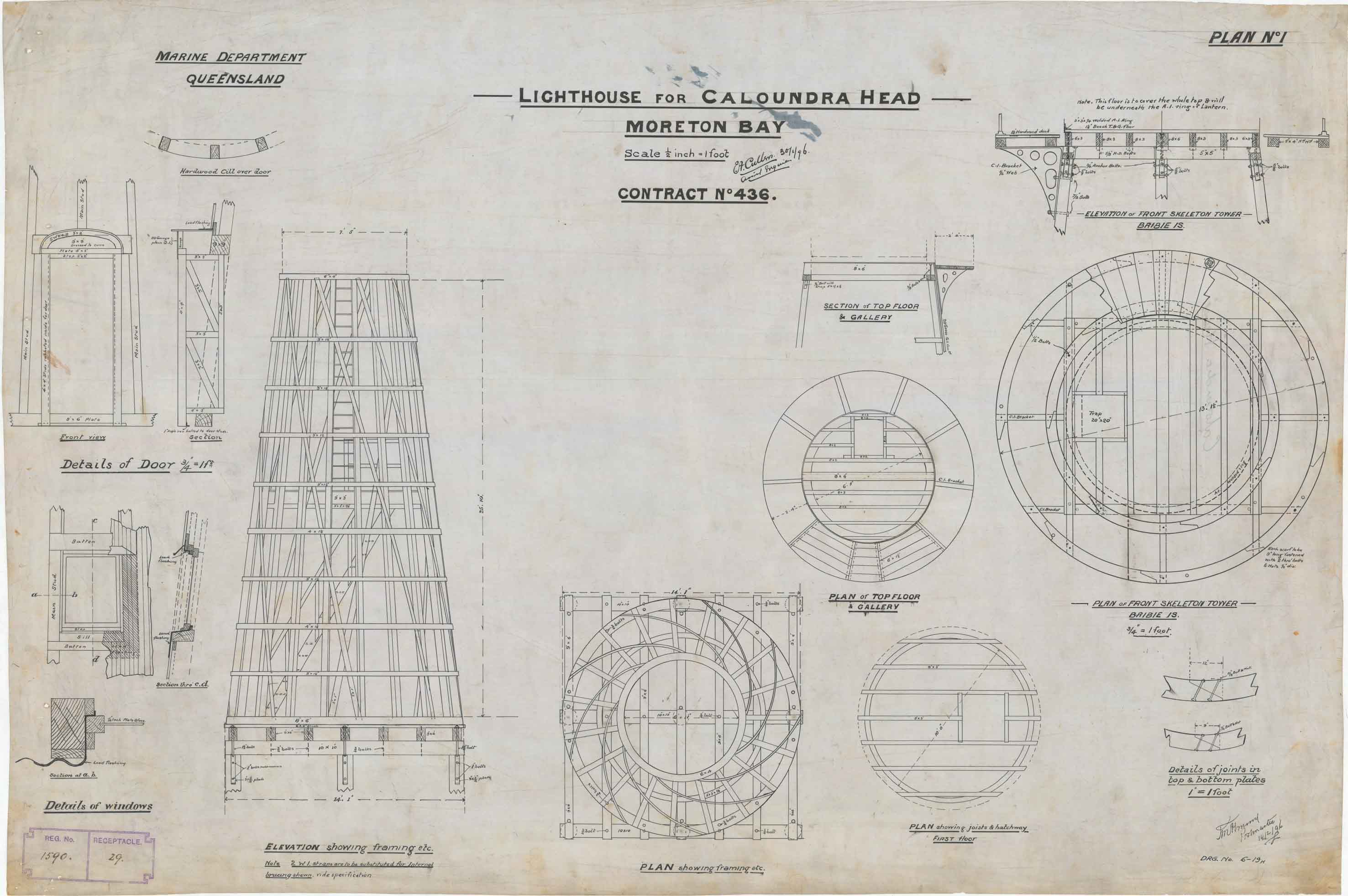 Lighthouse for Caloundra Head, Moreton Bay, 1896 [Signed: E A Cullen, Assistant Engineer on 30 Jan 1896] [Stamped: Marine Dept of Qld]